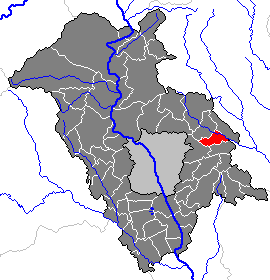 This map shows the area of the Gemeinde (municipality) Eggersdorf bei Graz in the Bezirk (district) Graz-Umgebung, Styria, Austria.